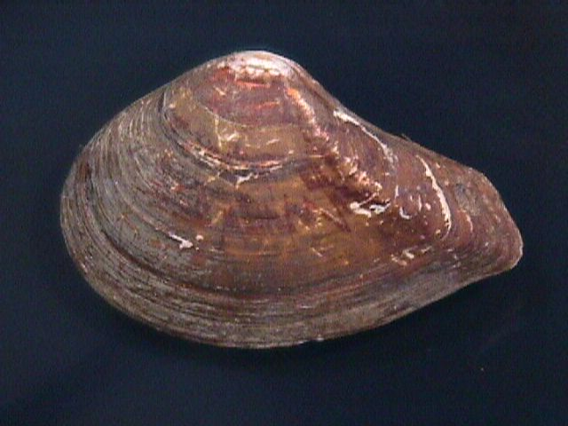 Eucrassatella speciosa (Bivalvia: Carditoida: Crassatellidae) de Carupano - estado Sucre.